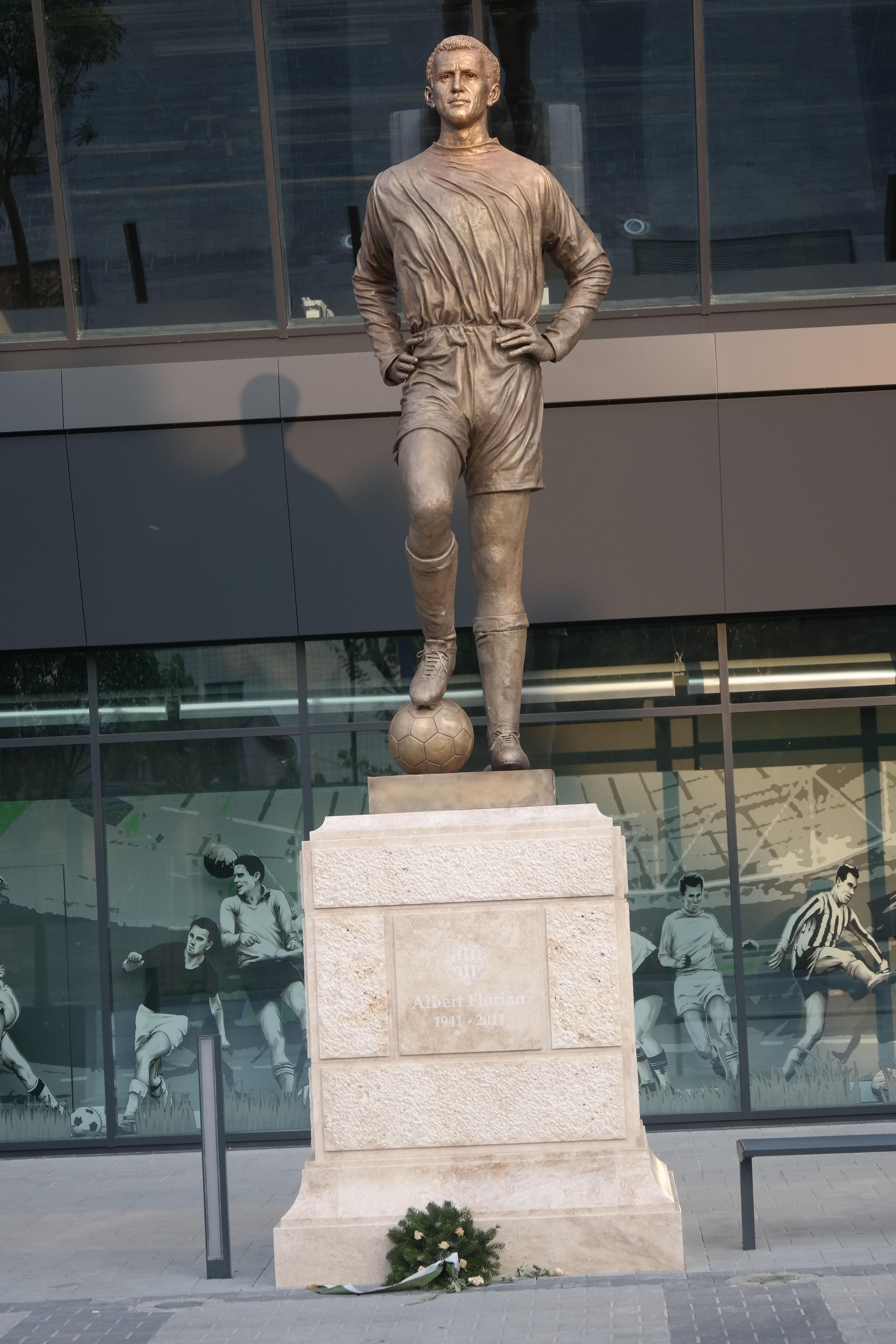 Flórián Albert statue at Groupama Arena in Budapest (by Sándor Kligl)